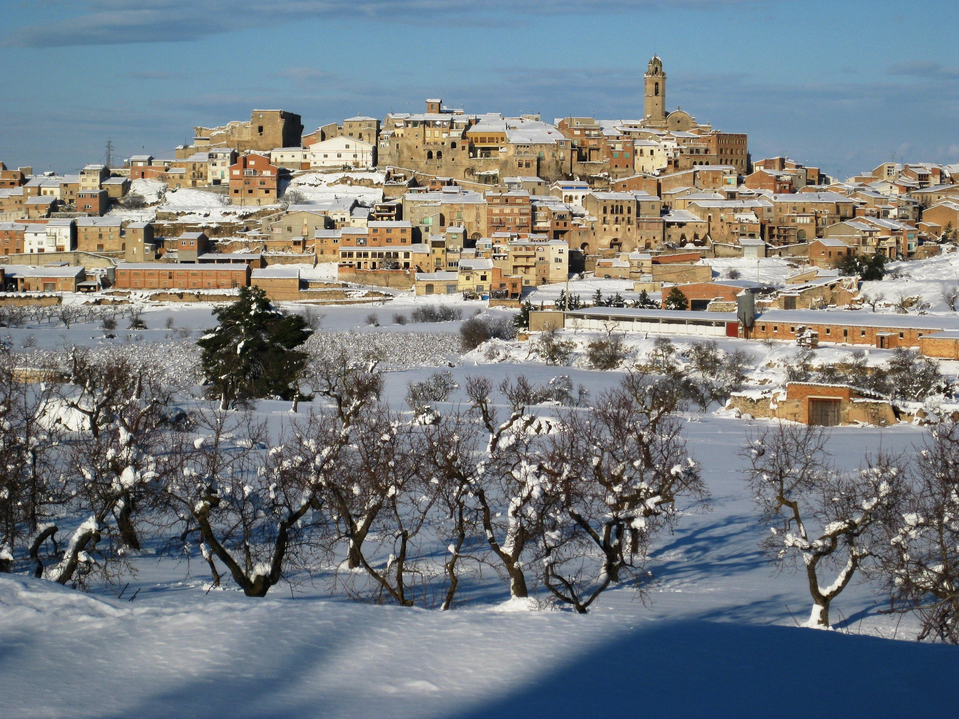 Maldà after snowing.